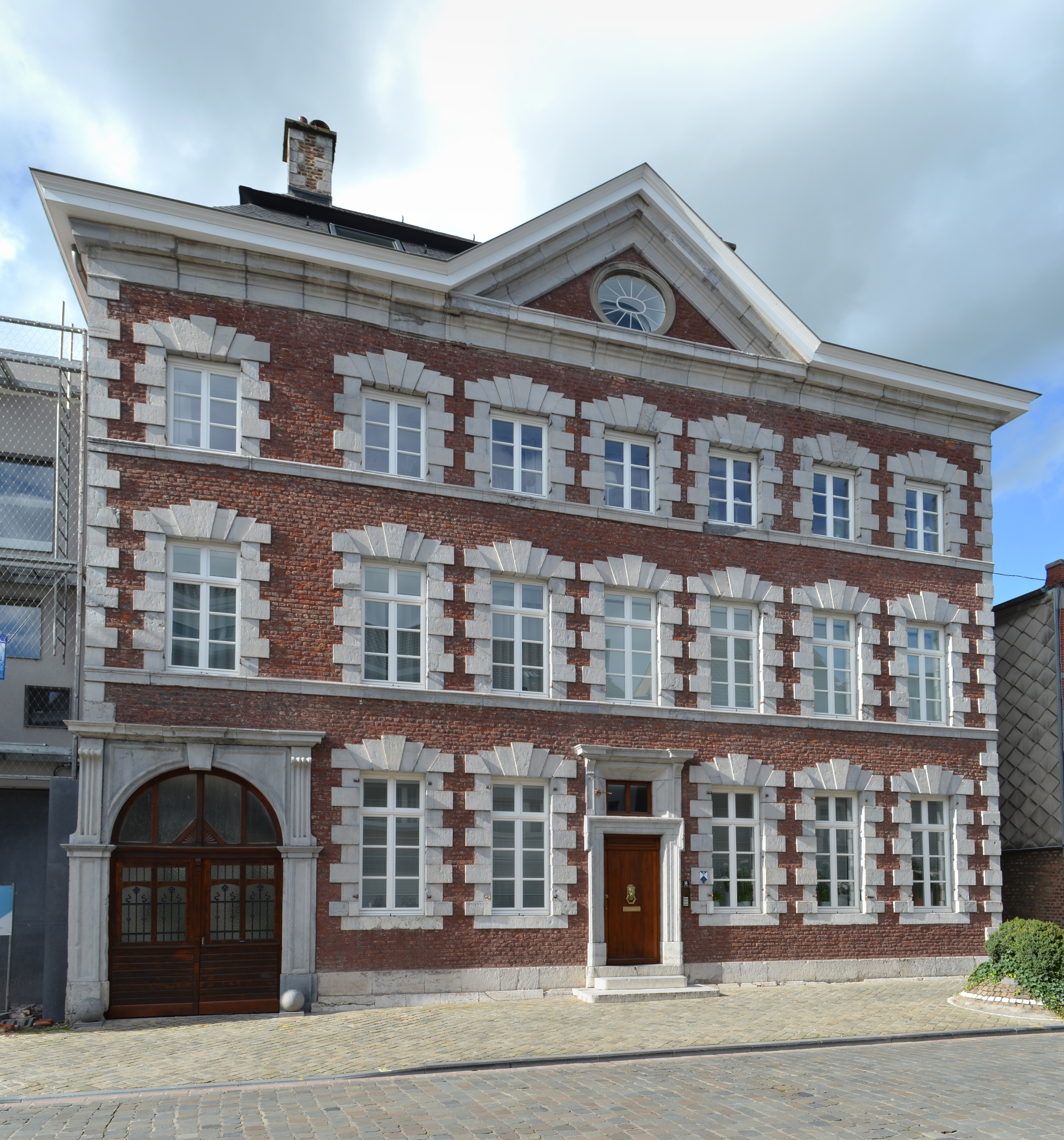 Explanations and history, see category. Version without poster on the doorway.